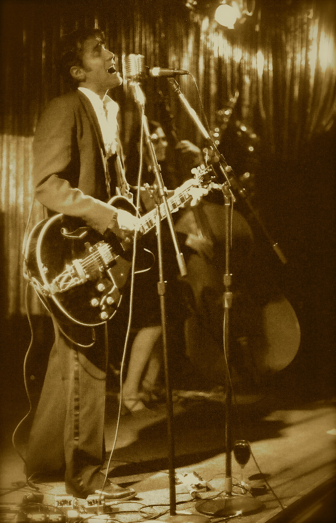 Nick Urata & DeVotchKa at Spaceland 2004